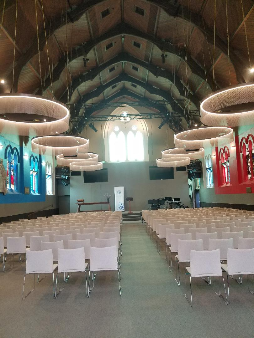 st judes carlton